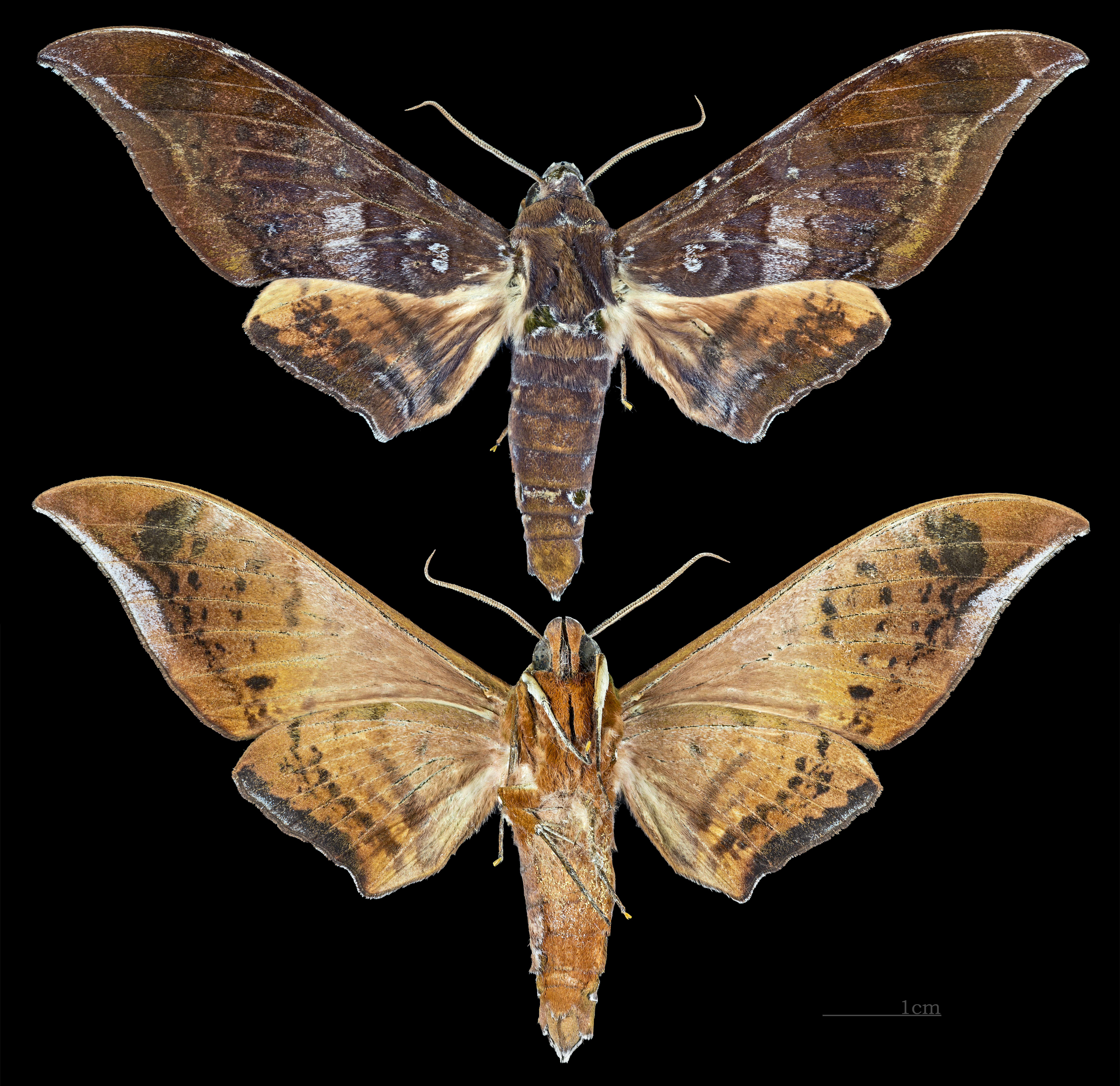 Ambulyx bakeri - Two views of same specimen Collection of the Mathematician Laurent Schwartz